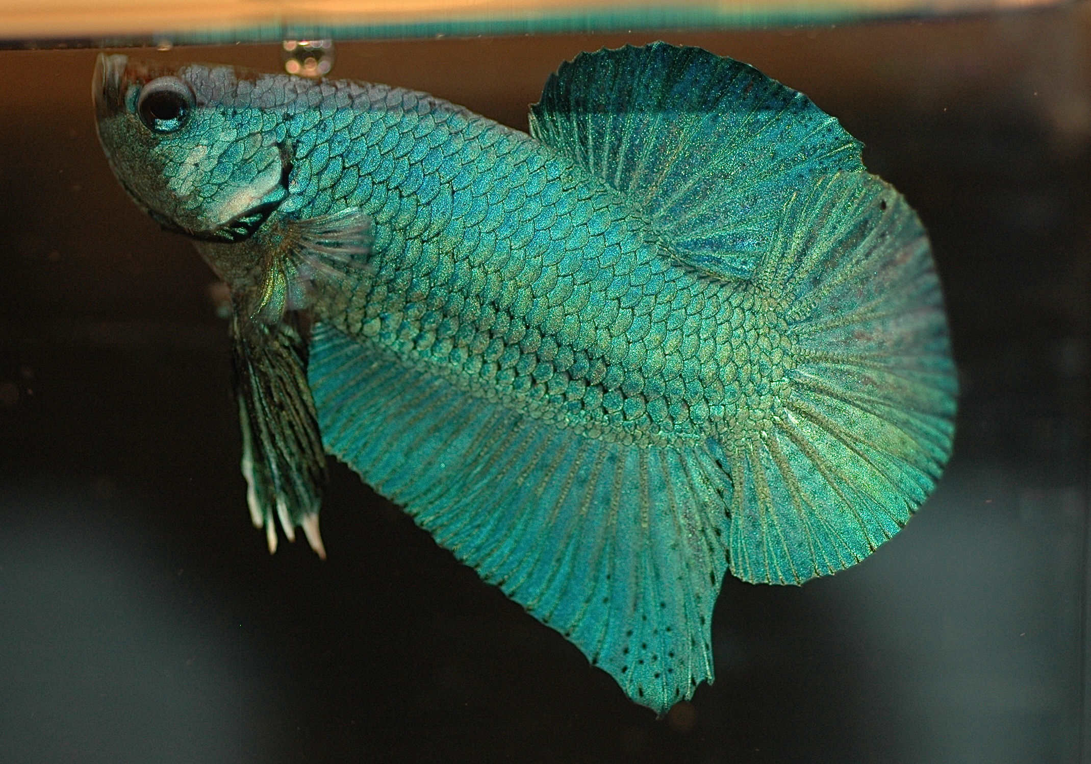 Siamese fighting fish Betta splendens, male, in an aquarium.